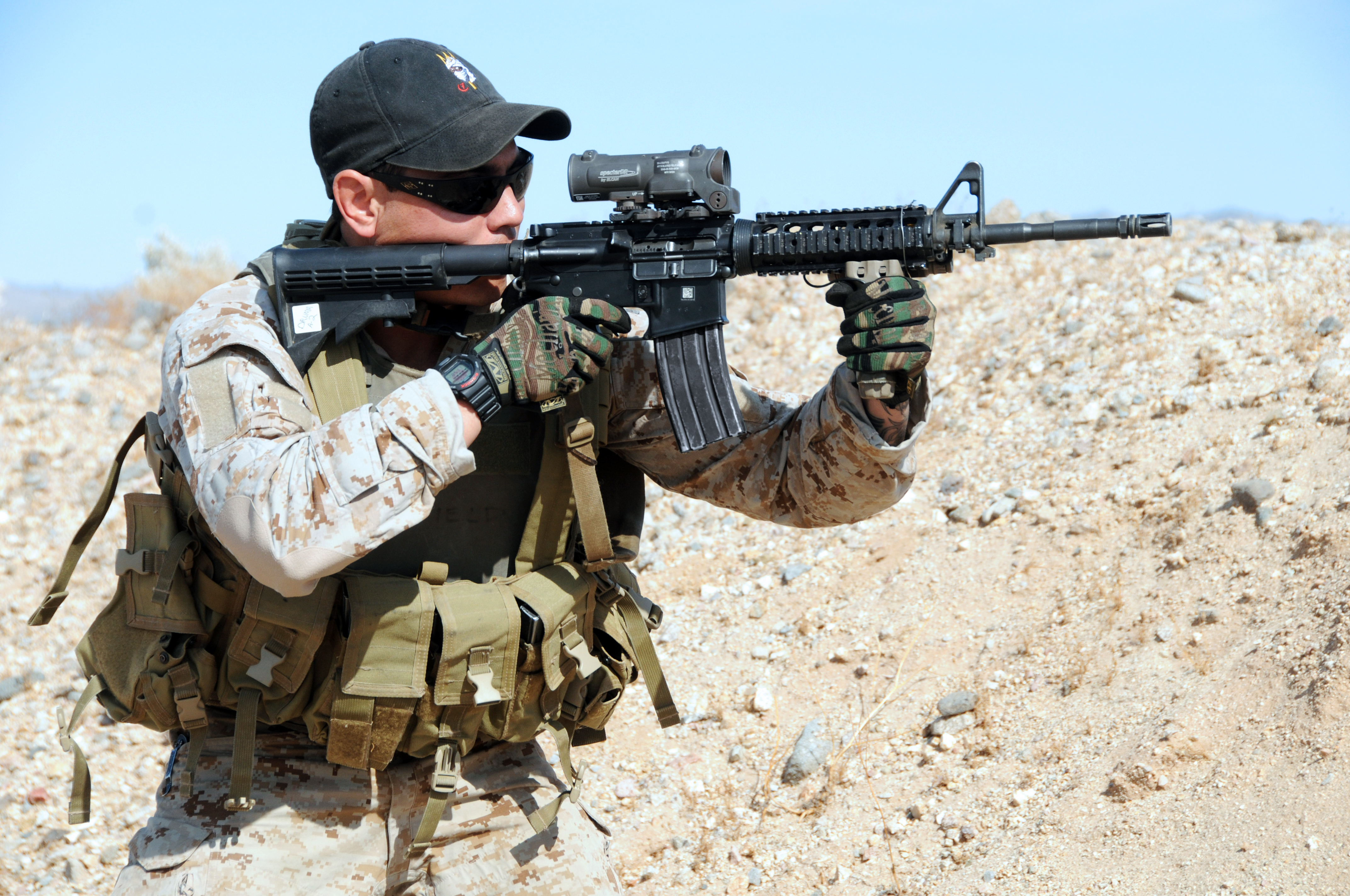 Seal with a M4 in a desert area